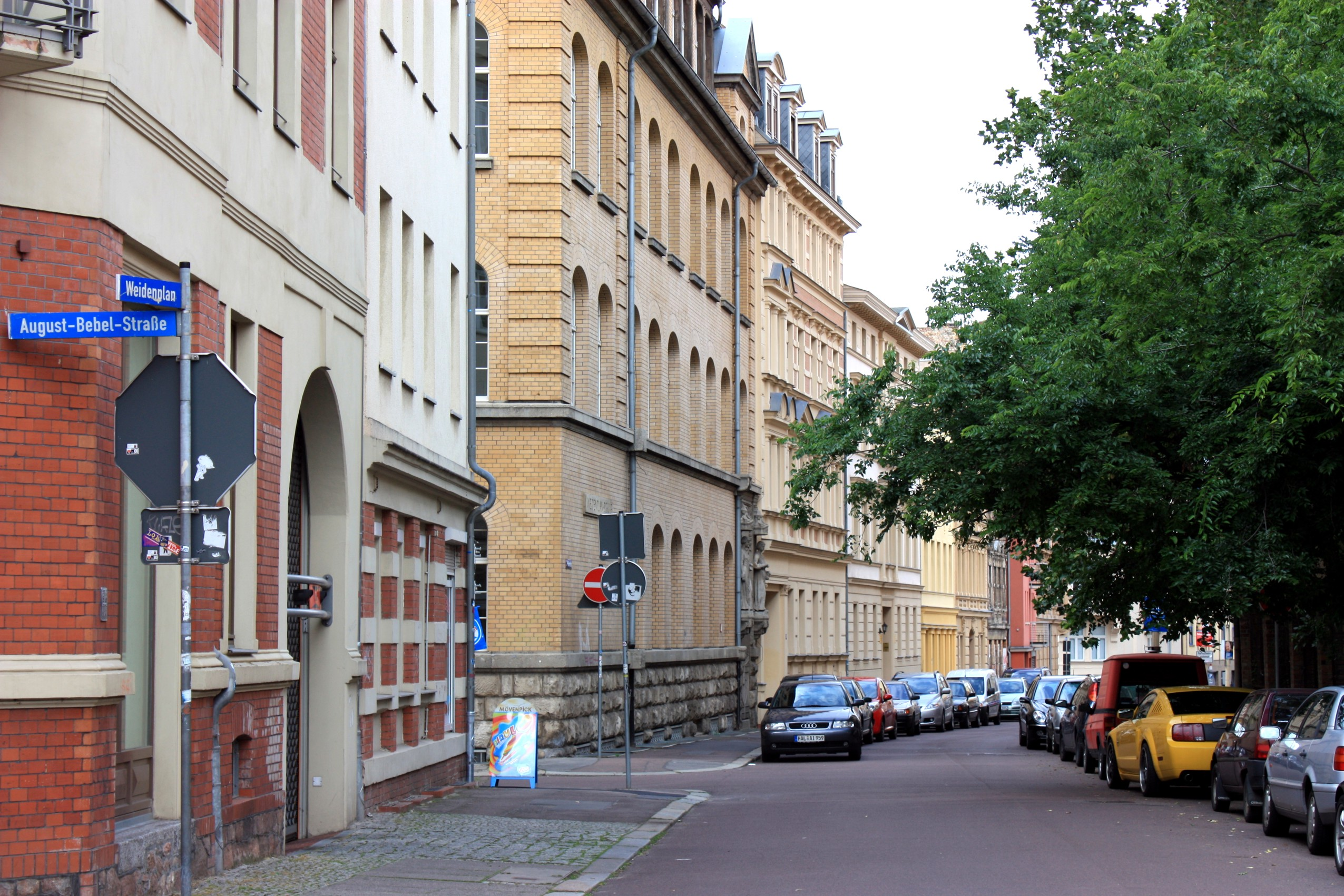 Halle (Saale), the western part of the street "Weidenplan"